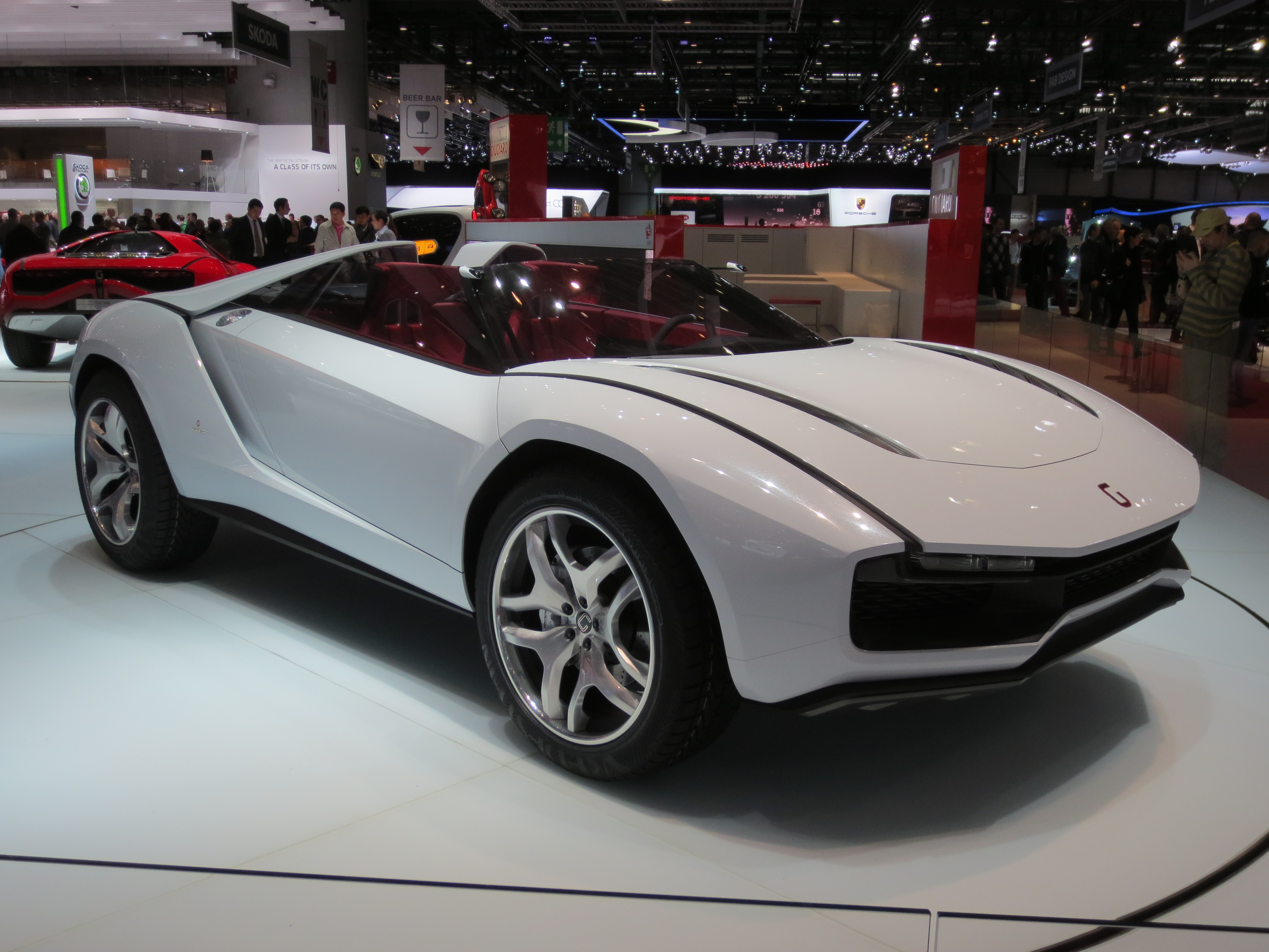 Subject: Giugiaro Parcour Roadster Author: Luc106 Date:March 12th, 2013 Event: Salon de l'Automobile 2013 Place/Country: Geneva Palexpo, Geneva (Switzerland) I release all rights in the public domain.